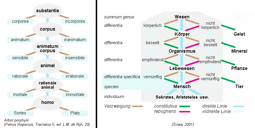 Porphyrian trees, left side: according Petrus Hispanus tractatus II, ed. L.M. de Rijk, 20., as given by Enzyklopädie Philosophie... Right side: acc. Sowa 2001